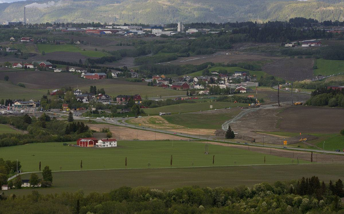 Klettkrysset 25.05.16